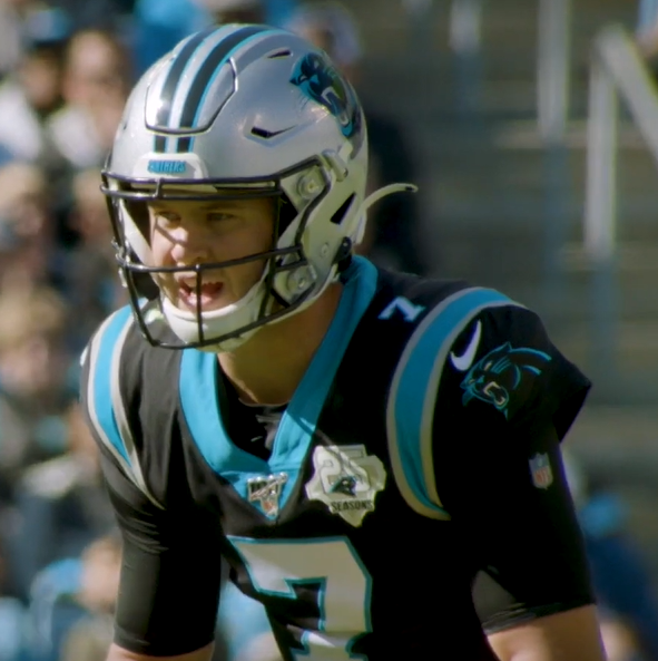 Kyle Allen 2019. Image from video Harold Landry's Interception | Slow-Mo Monday, ~ 00:00